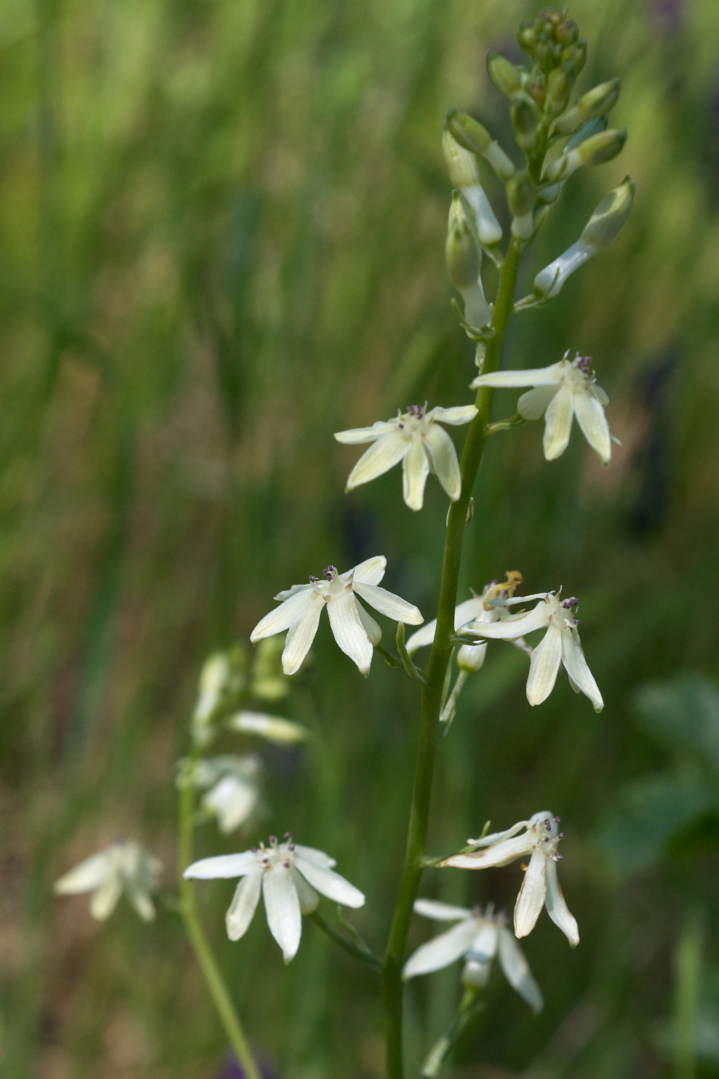 Species from California Common name: Hartweg's doll's lily, Hartweg's odontostomum, Odontostomum hartwegii Photographed on Cherokee Road, Butte County, California